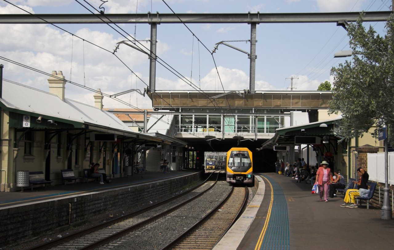 Campsie Station, Sydney. Taken by User:blu3dblu3d, 27 Oct 2006